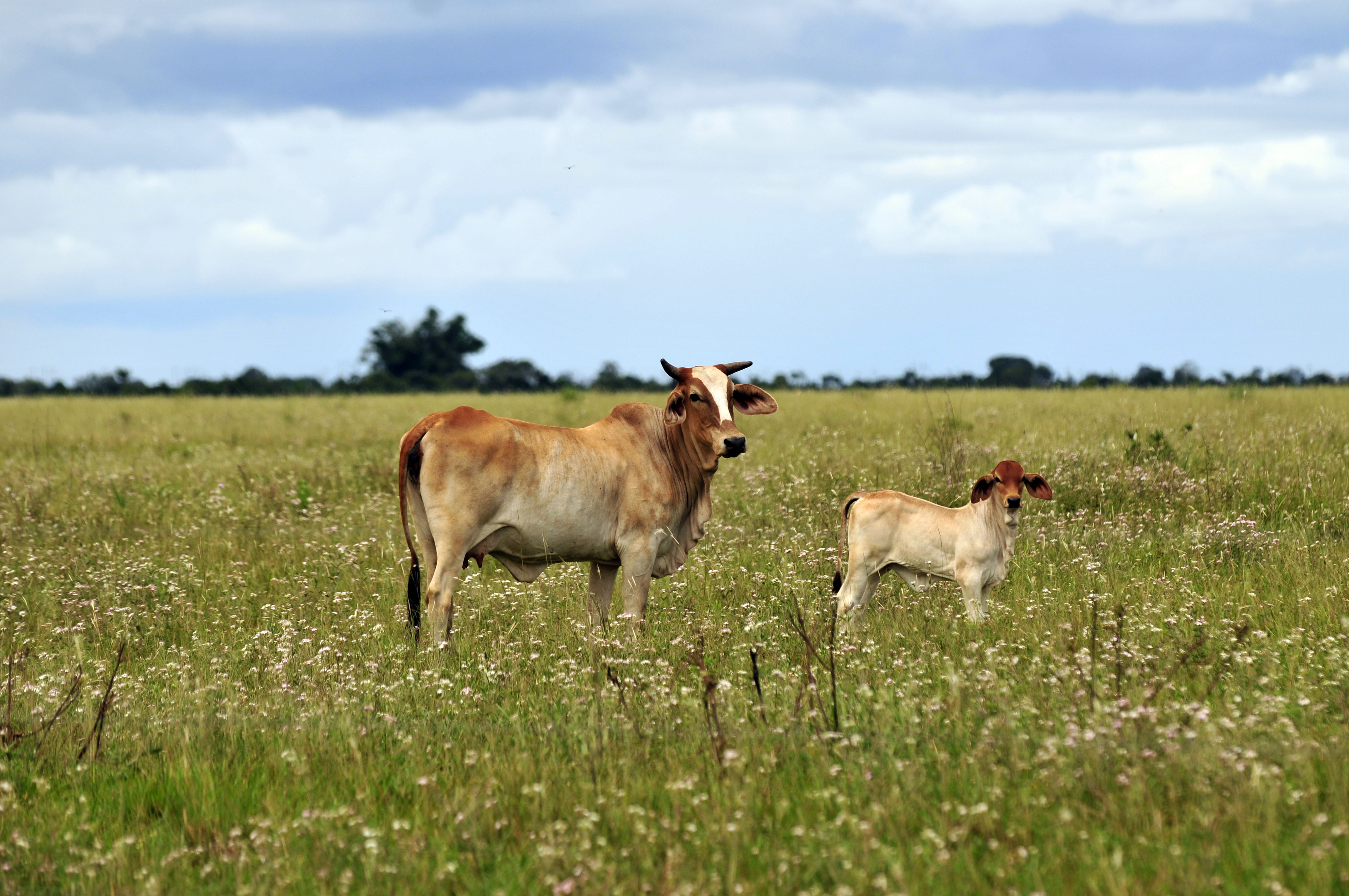 Pic by Neil Palmer (CIAT). Cattle in Colombia's eastern plains, or Llanos